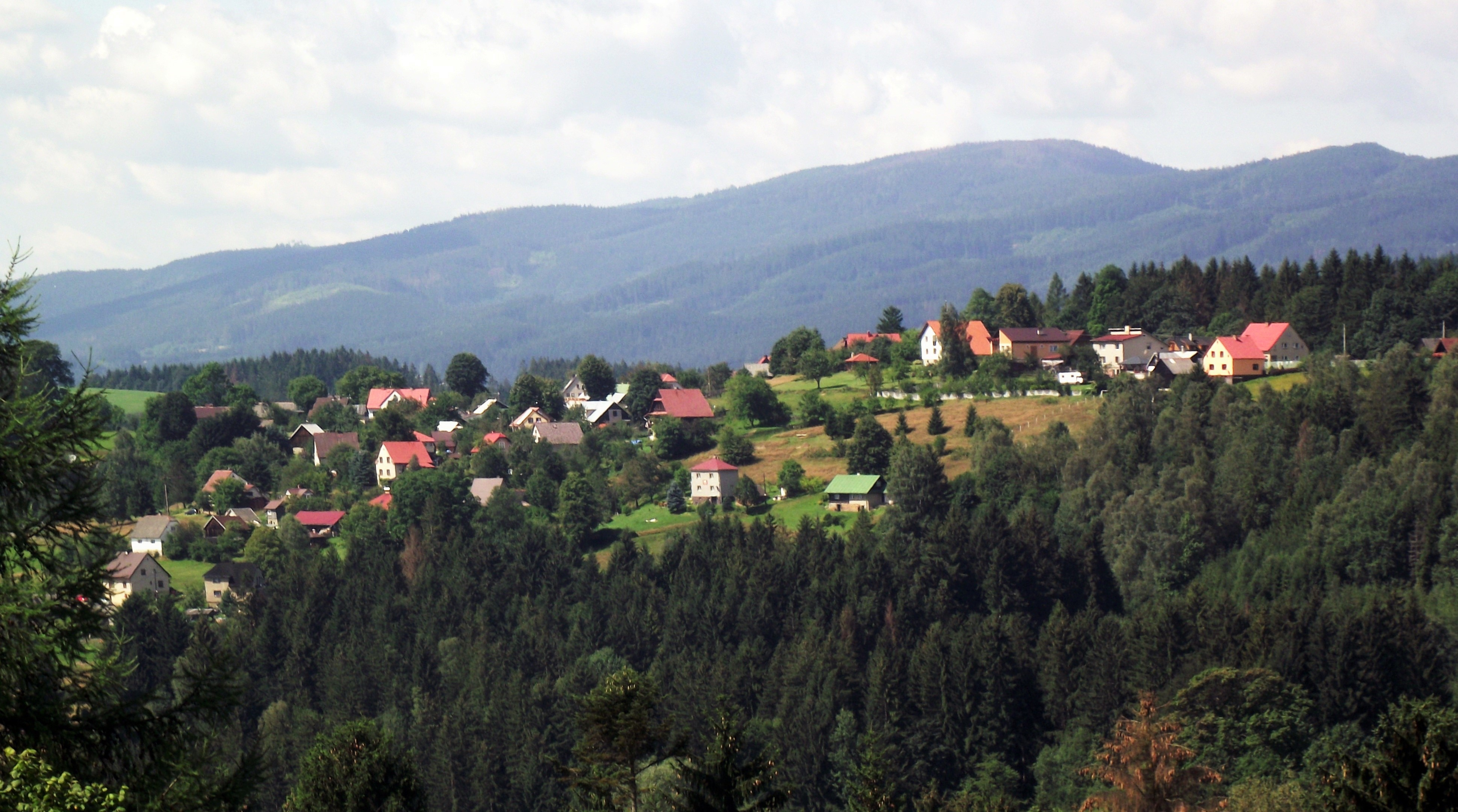 A view of Hrčava from Jaworzynka.